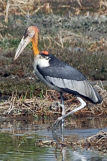 Greater Adjutant (Leptoptilos dubius) - note the grey wing coverts